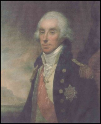 George Elphinstone, 1st Viscount Keith (1746-1823)